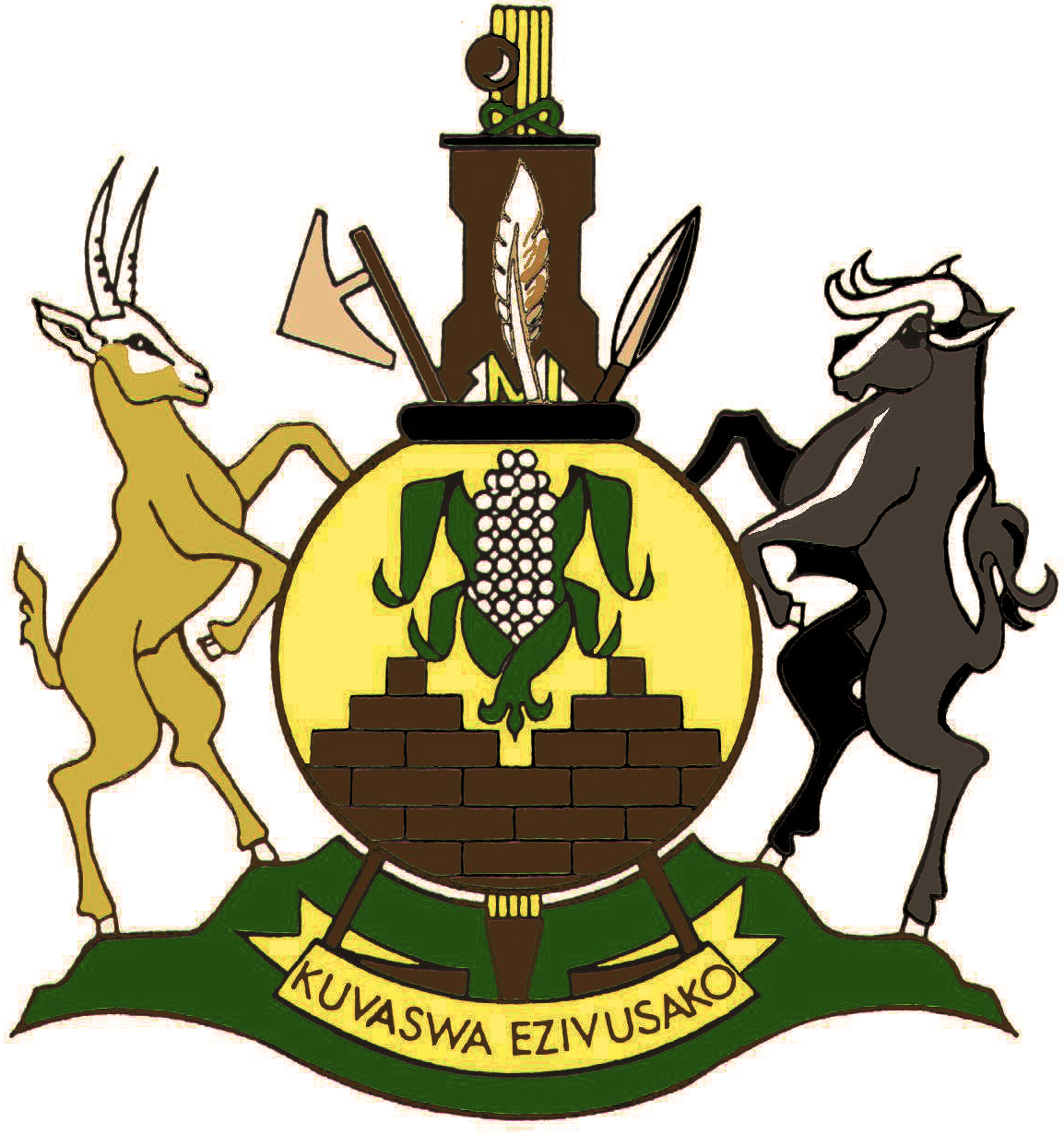 KwaNdebele coat of arms